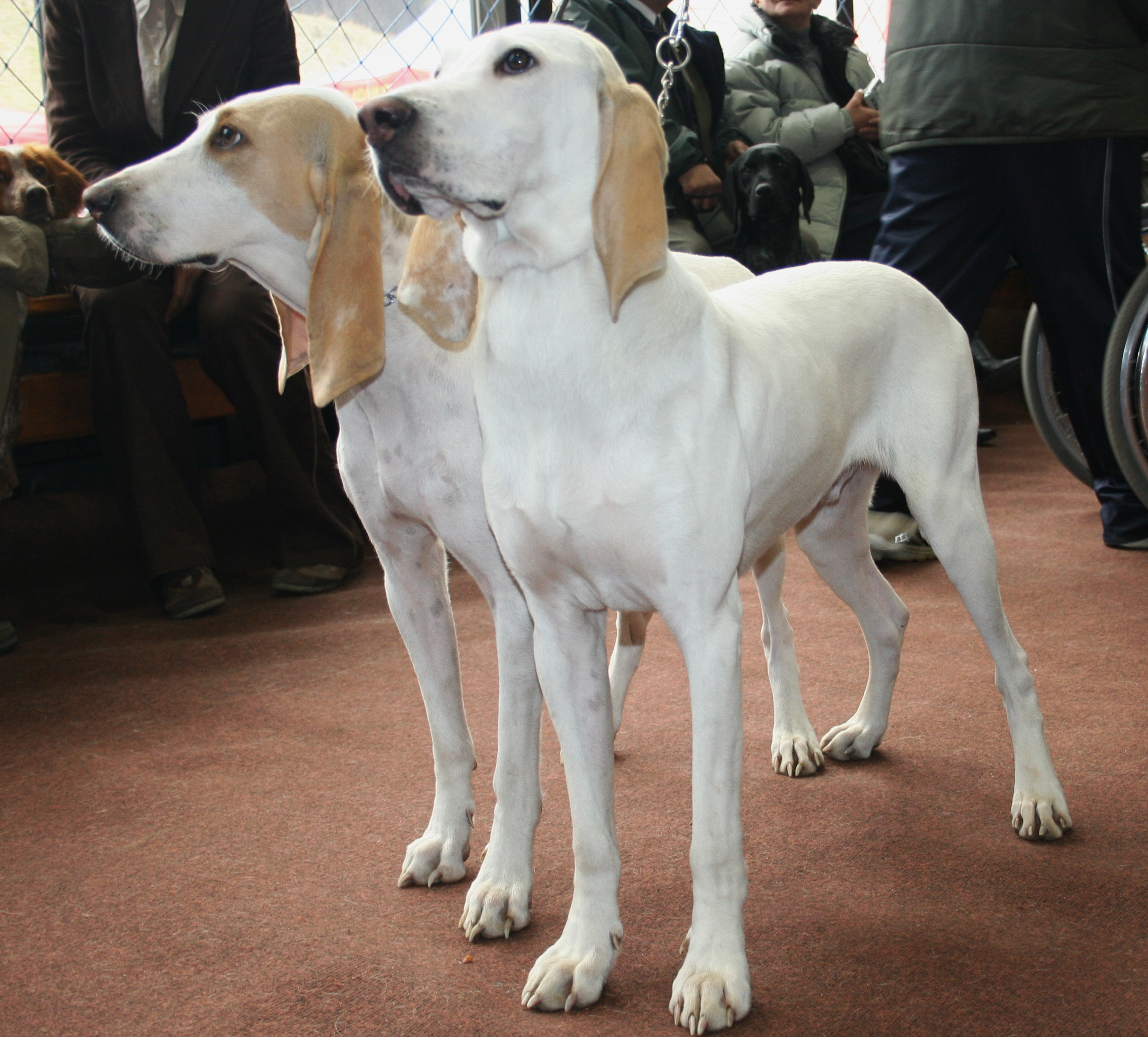 Porcelaine during the international show of dogs in Katowice, Poland. The dogs come from the Czech kennel "Od Pstruží říčky" FCI. The owner and the breeder is Jana Šmídová. (